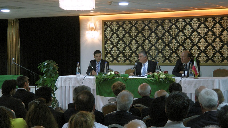 Prince Reza Pahlavi, Meeting with Persian-Dutch Community in The Netherlands, The Hague, 31th May 2012. Photo by Pejman Akbarzadeh / Persian Dutch Network